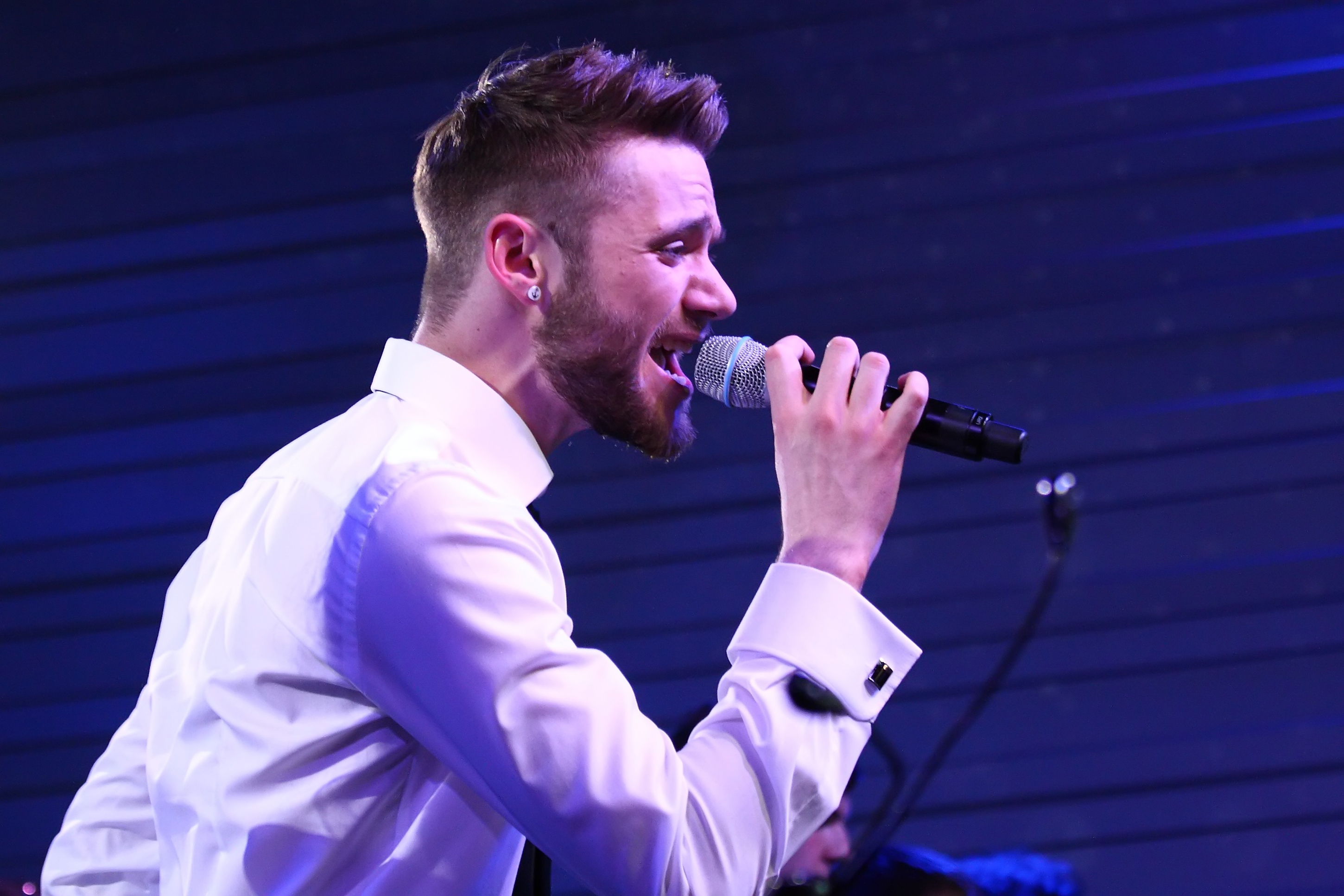 Roman Lob